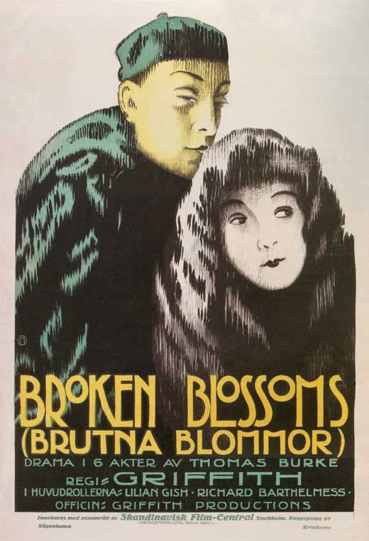 Poster for the American film Broken Blossoms (1919).